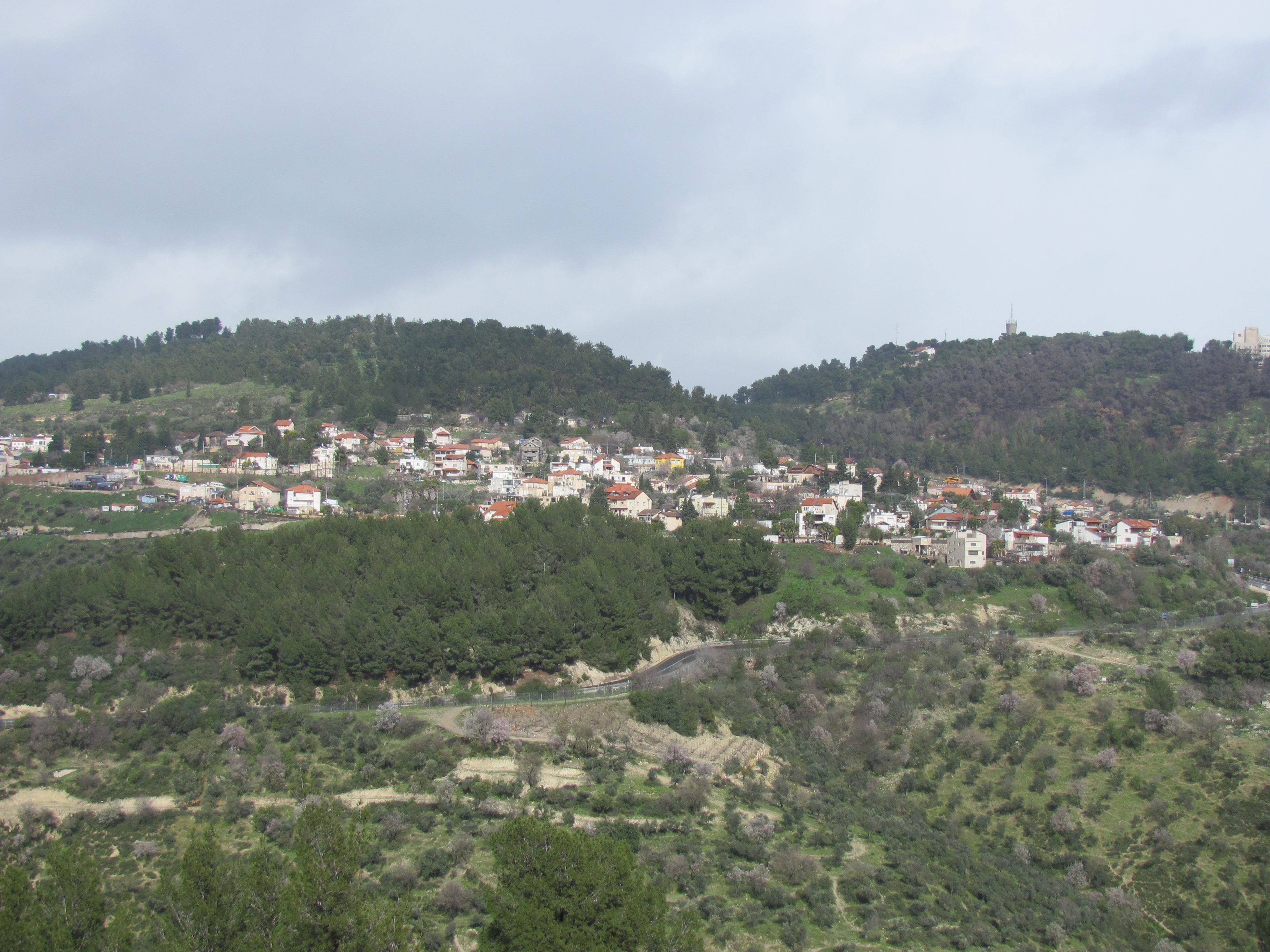 Birya, as seen from Safed.